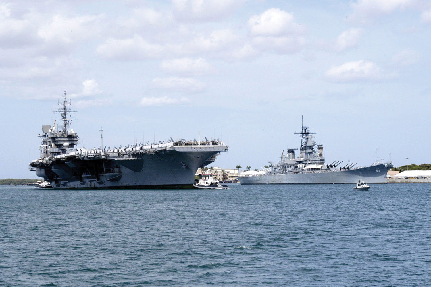 USS Constellation (CV-64) and USS Missouri (BB-63) in Pearl Harbour.